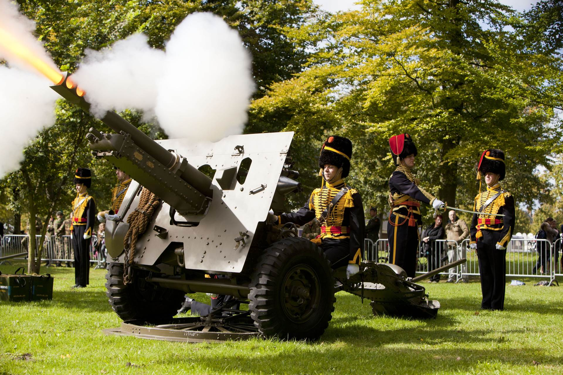 Gele rijders prinsjesdag 2012